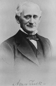 Portrait of Amos Tuck, who died in 1879.